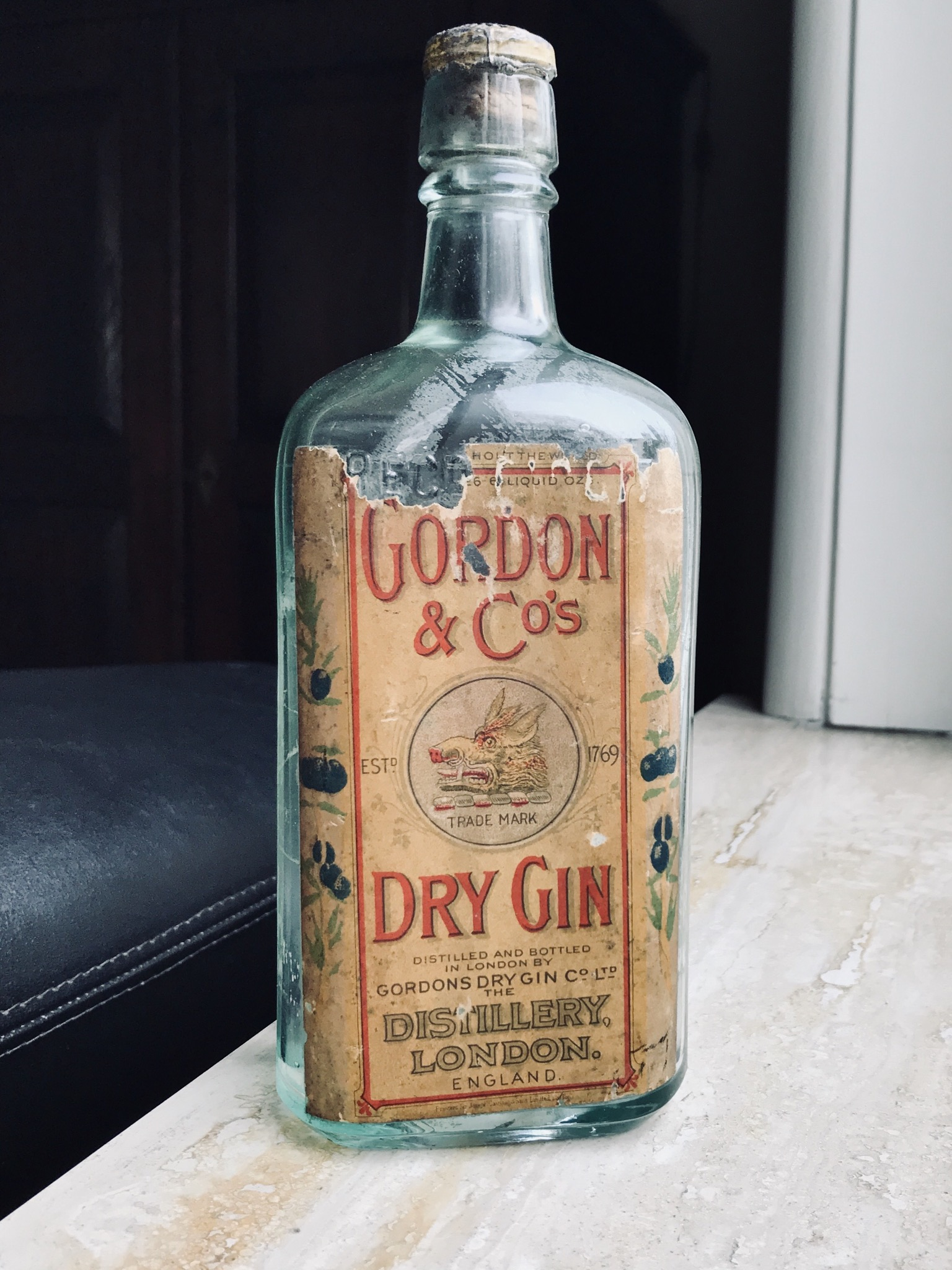 Both label and registration number on bottle correspond with the year 1912.